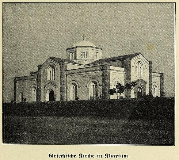 "Griechische Kirche in Khartum" Greek Church in Khartoum (Sudan)